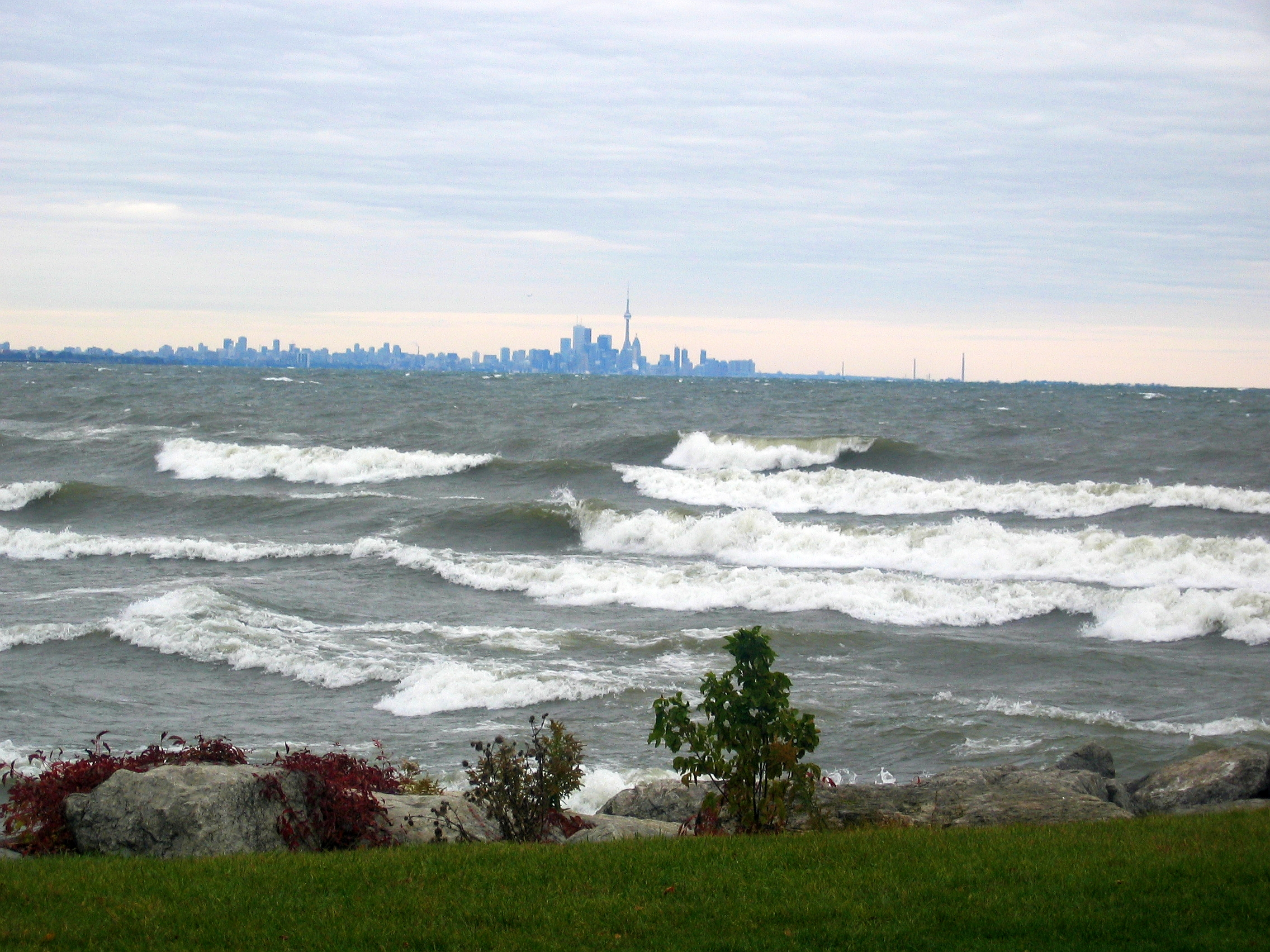 Waves in Lake Ontario, note the Toronto skyline in the background.